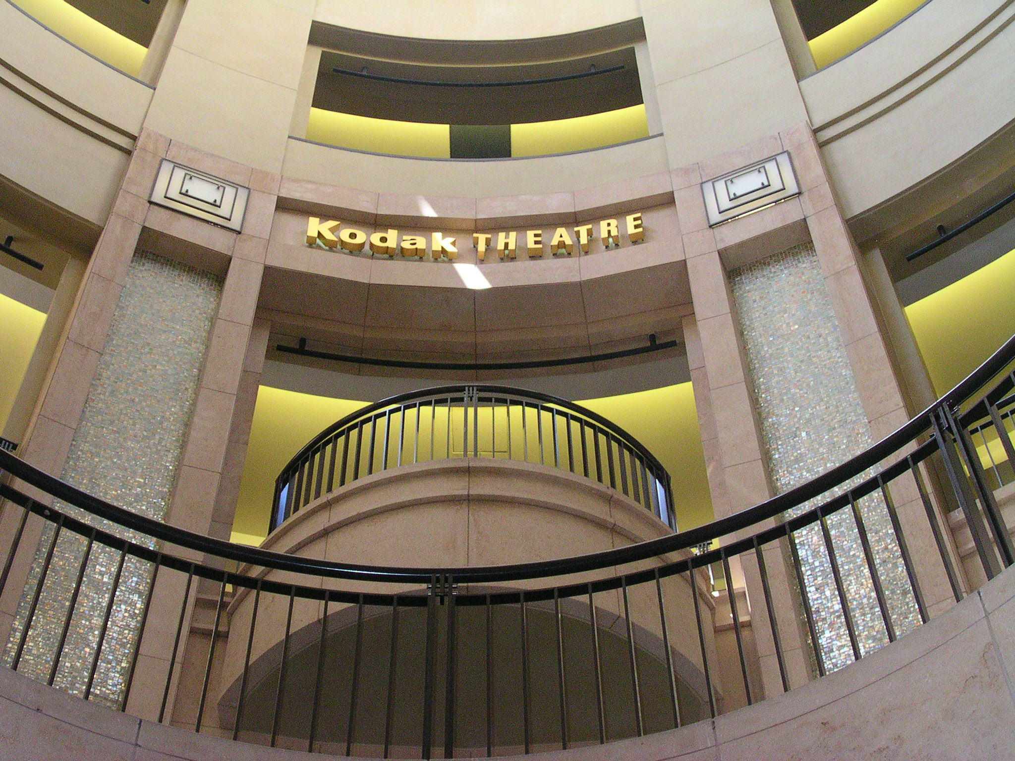 Kodak Theatre, Hollywood Boulevard, Los Angeles, California